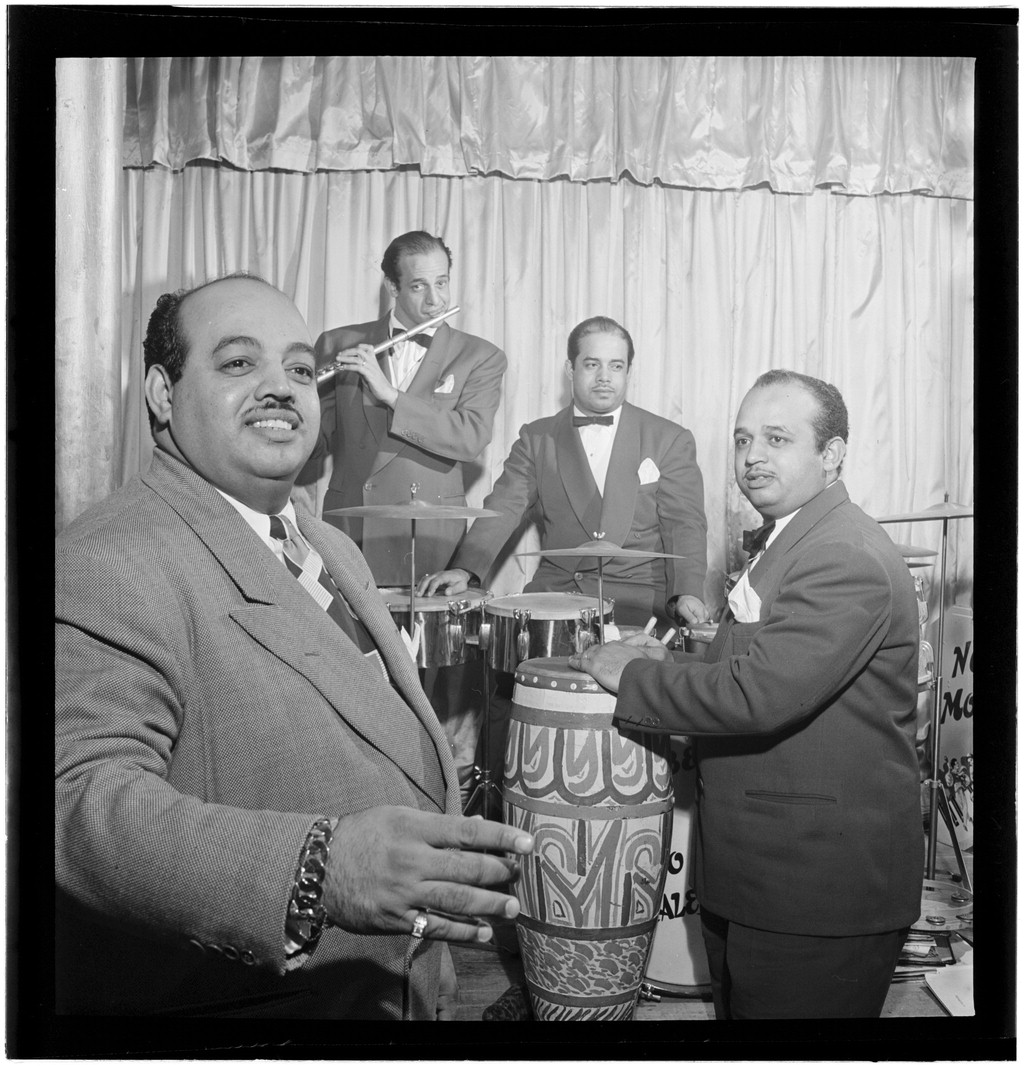 Gottlieb, William P. Gottlieb, 1917-, photographer. Noro Morales [Portrait of Noro Morales, Ismael Morales, and Humberto López Morales, Glen Island Casino, New York, N.Y., ca. July 1947] 1 negative : b&w ; 2 1/4 x 2 1/4 in. Caption from Down Beat: Top pic spots Noro Morales, with brother Ismael, flutist, and two other members of his outfit. Notes: Gottlieb Collection Assignment No. 238 Reference print available in Music Division, Library of Congress. Purchase William P. Gottlieb Forms part of: William P. Gottlieb Collection (Library of Congress). In: "Rhumba bands may cut hot orks: Latin American rhythms herald new kind of jazz," Down Beat, v. 14, no. 16 (July 30, 1947), p. 10. Subjects: Morales, Noro, 1911-1964 Morales, Ismael López Morales, Humberto Jazz musicians--1940-1950. Latin jazz--1940-1950. Percussionists--1940-1950. Flute players--1940-1950. Glen Island Casino Format: Portrait photographs--1940-1950. Cityscape photographs--1940-1950. Film negatives--1940-1950. Rights Info: Mr. Gottlieb has dedicated these works to the public domain, but rights of privacy and publicity may apply. Repository: (negative) Library of Congress, Prints & Photographs Division, Washington D.C. 20540 USA, (reference print) Library of Congress, Music Division, Washington D.C. 20540 USA, Part Of: William P. Gottlieb Collection (DLC) 99-401005 General information about the Gottlieb Collection is available at Persistent URL: Call Number: LC-GLB23- 0641